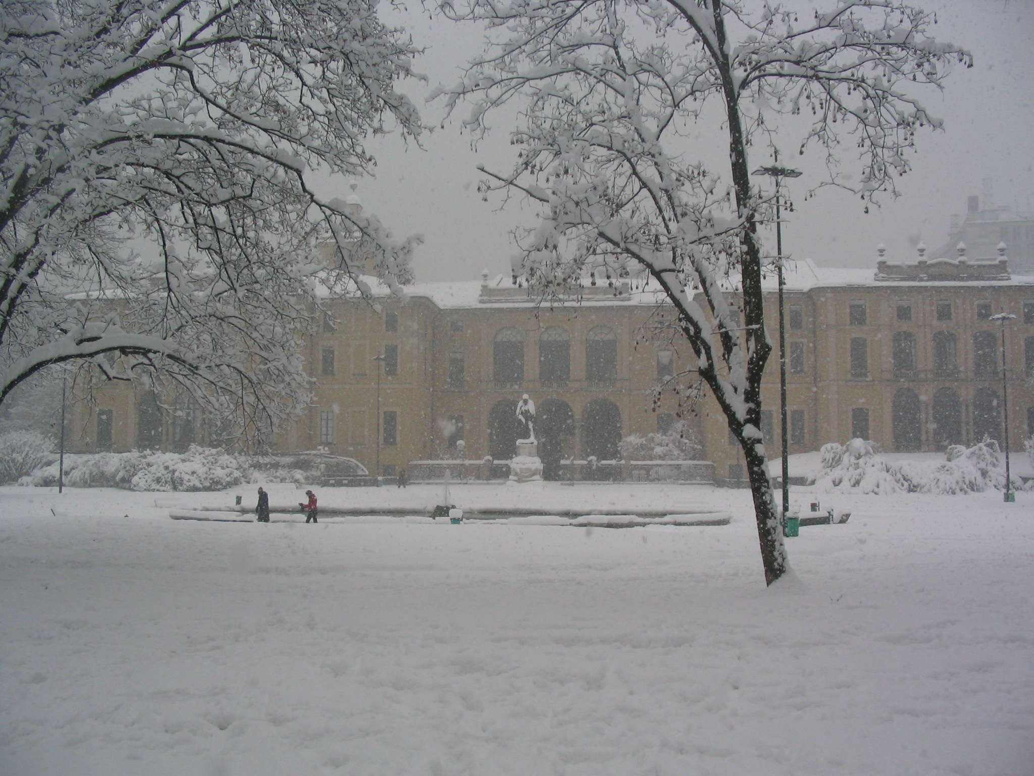 Palazzo Dugnani in Milan